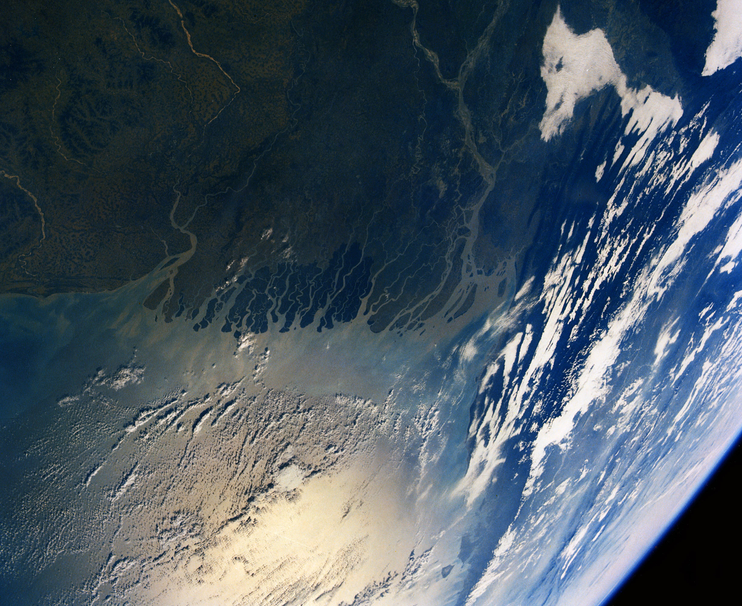 The mouths of the Ganges River seen in a specatcular view from the classified STS-27 "Atlantis" shuttle mission.